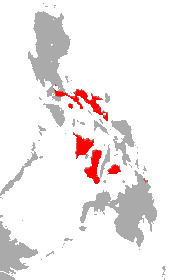 Philippine Pygmy Roundleaf Bat (Hipposideros pygmaeus) range